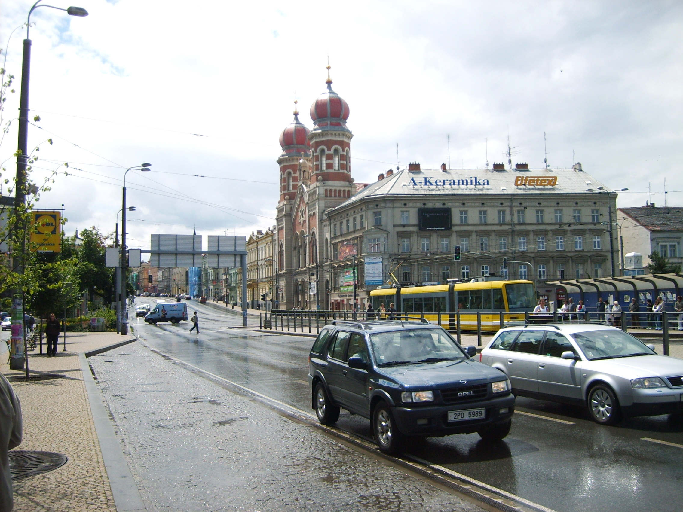 Central changing station of Plzeň trams - Sady Pětatřicátníků.